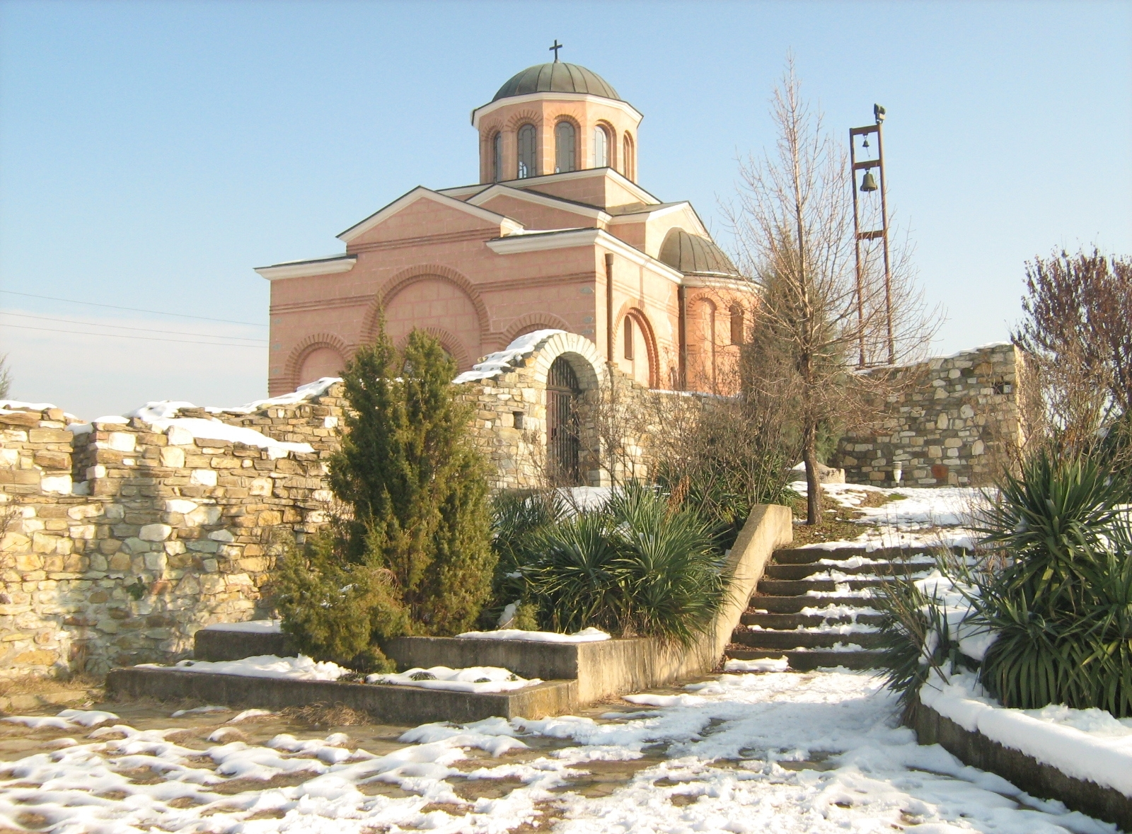 Church St Ioan, Kardzhali, Bulgaria